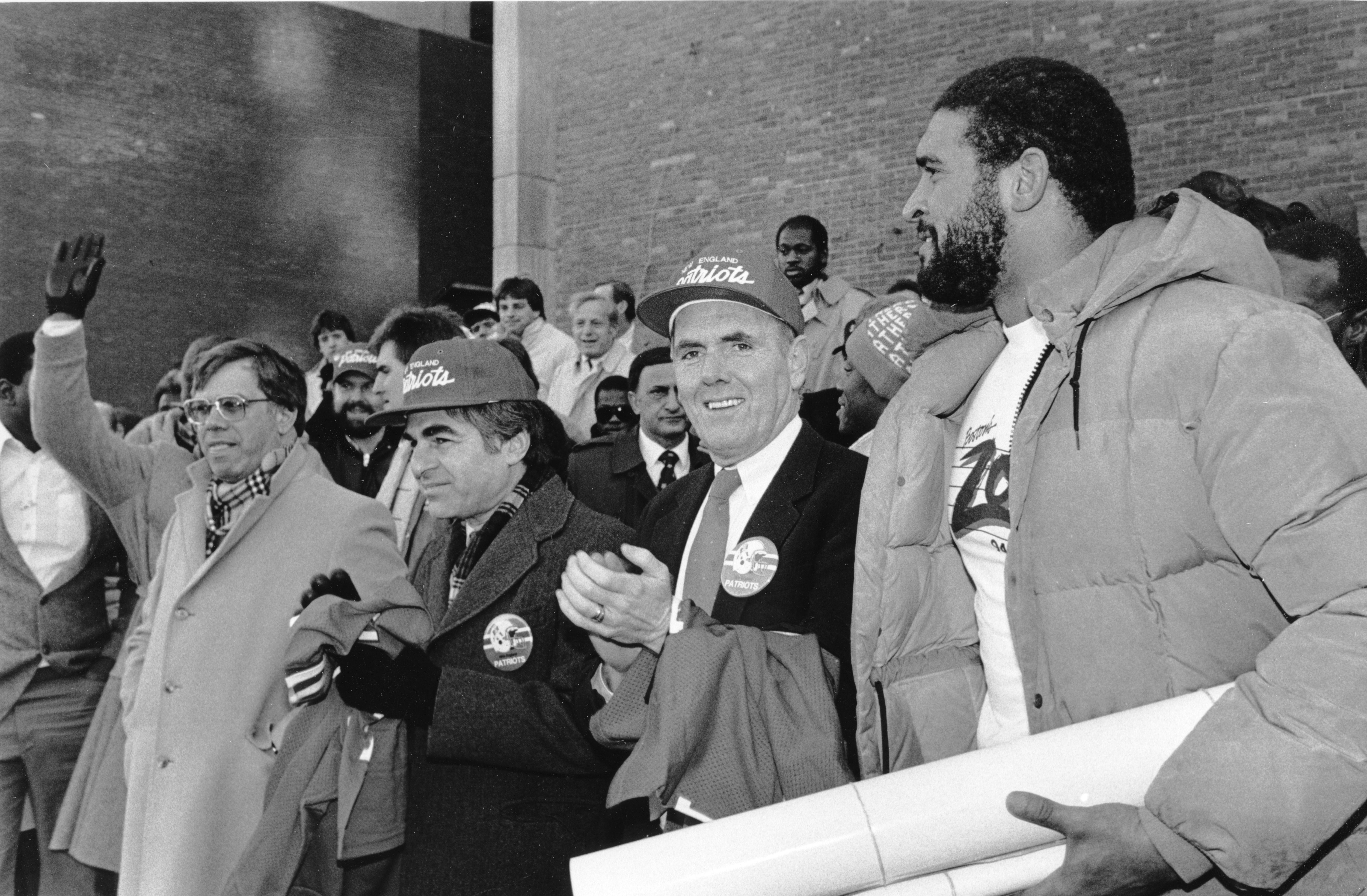 Title: Councilor Thomas M. Menino, Governor Michael S. Dukakis, Mayor Raymond L. Flynn and New England Patriot Brian Holloway Creator: Mayor's Office - City Photographer Date: 1985 Source: Mayor Raymond L. Flynn records, Collection #0246.001 File name: RF_0529 Rights: Copyright City of Boston Citation: Mayor Raymond L. Flynn records, Collection #0246.001, City of Boston Archives, Boston